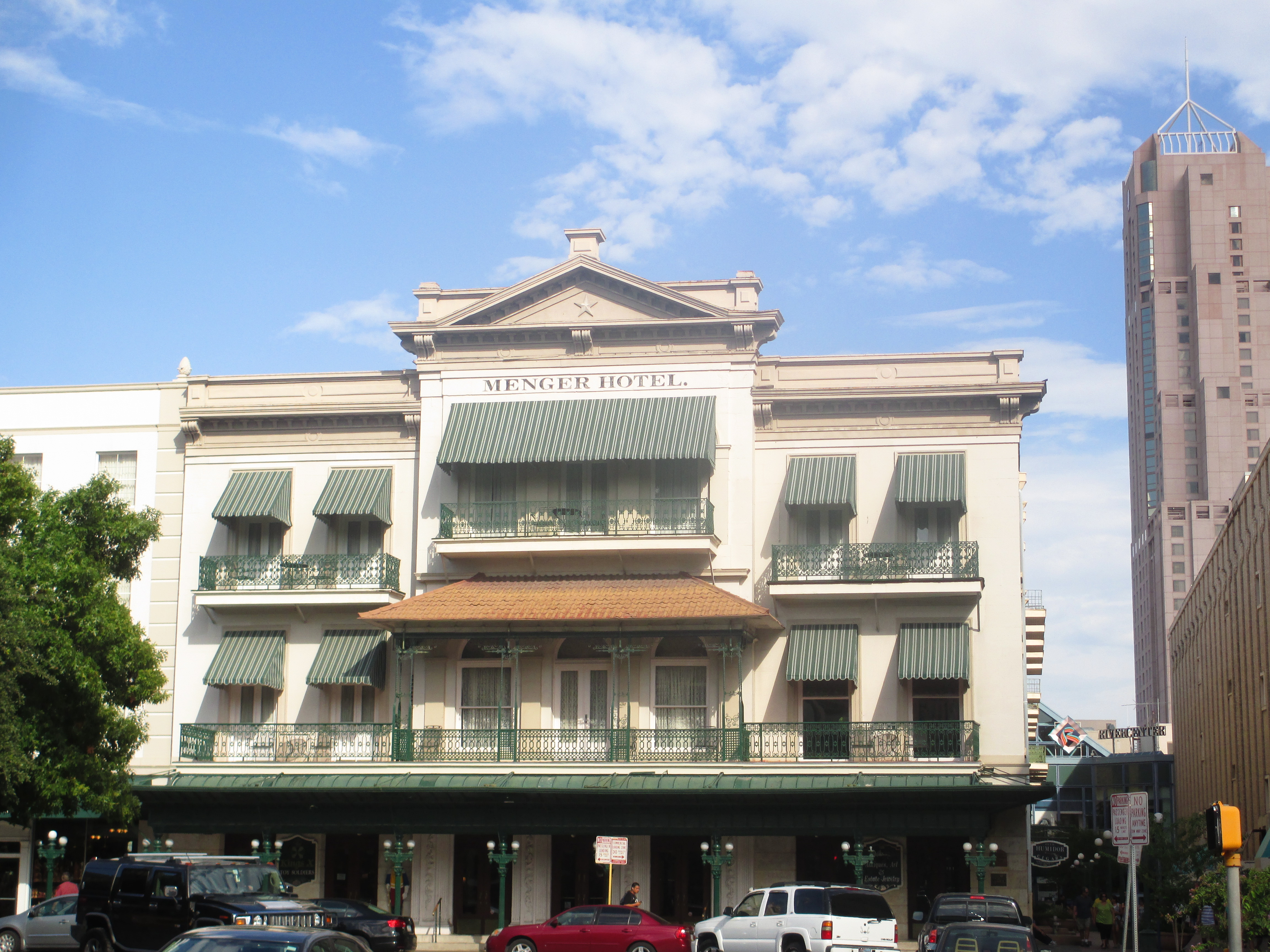 I took photo of Menger Hotel in San Antonio, TX, with Canon camera.